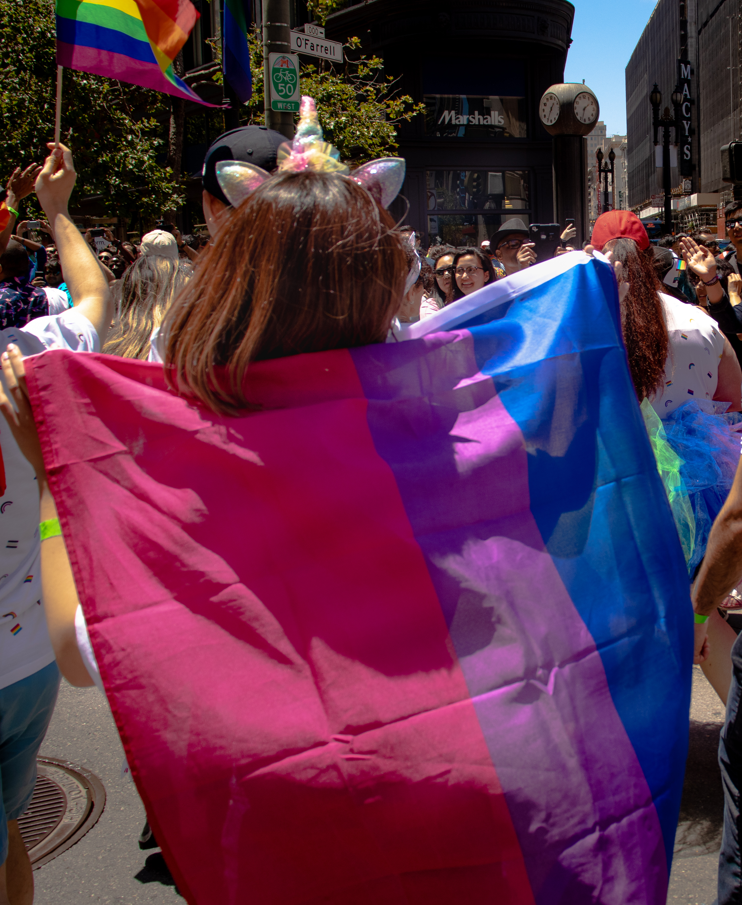 Unicorn girl covered with rainbow flagLocation: USA, San FranciscoEvent type: Pride paradeDate or year: 2019